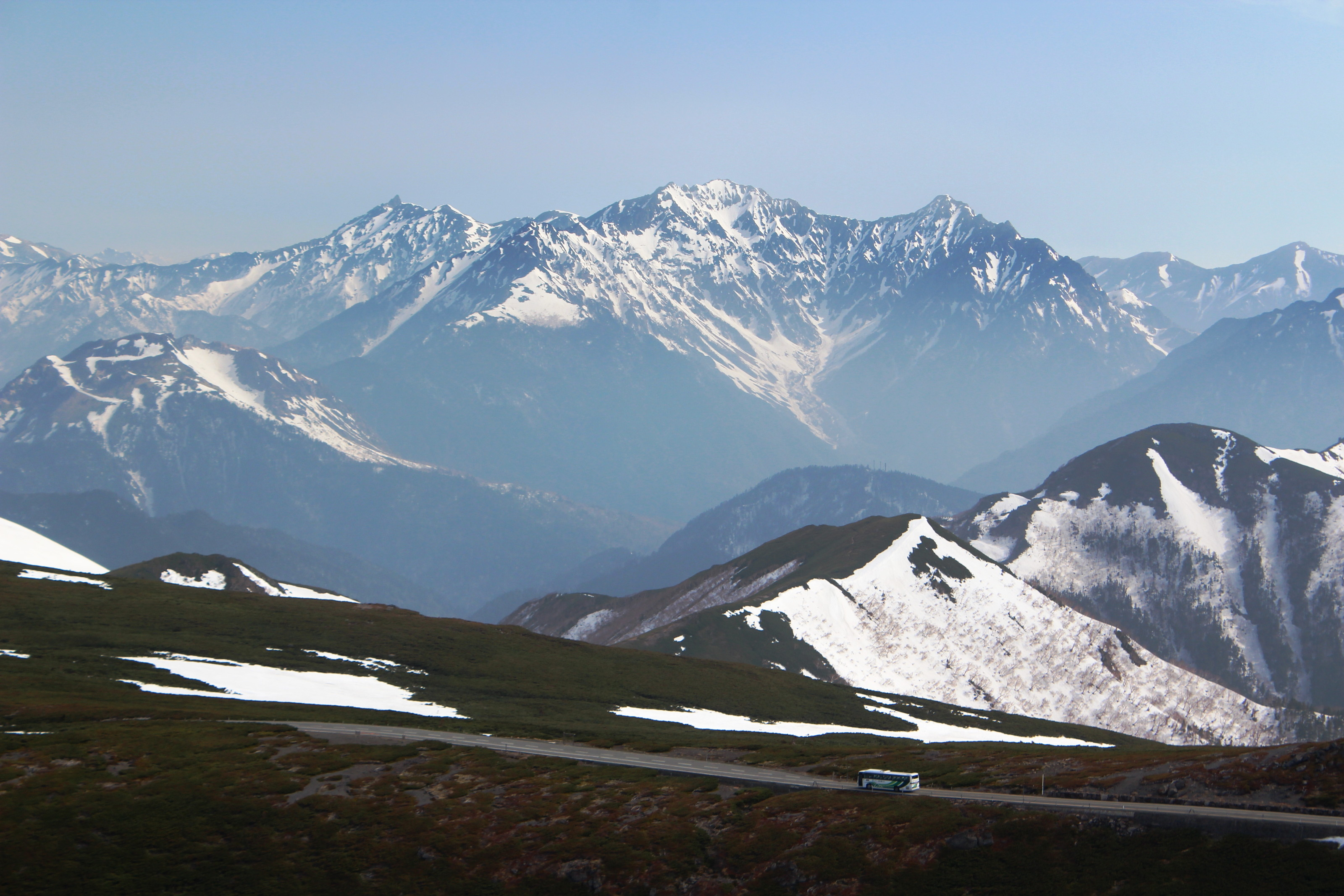 Norikura Skyline and Hida Mountains, Takayama, Gigu, Japan.